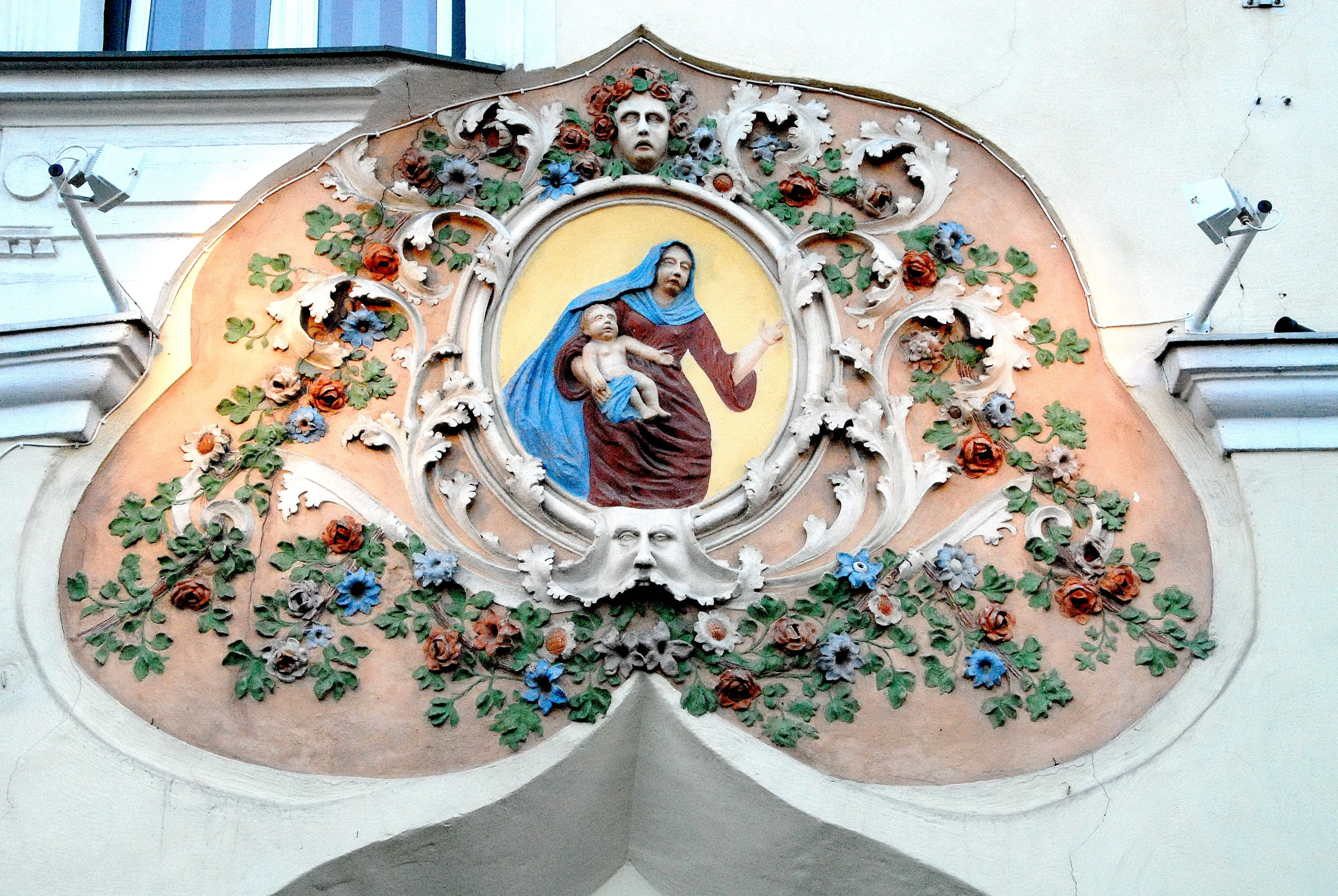 Madonna medaillon (around 1700) at the acanthus stucco area at the overdoor of the entrance portal on Hauptplatz #2, city Feldkirchen, district Feldkirchen, Carinthia, Austria, EU